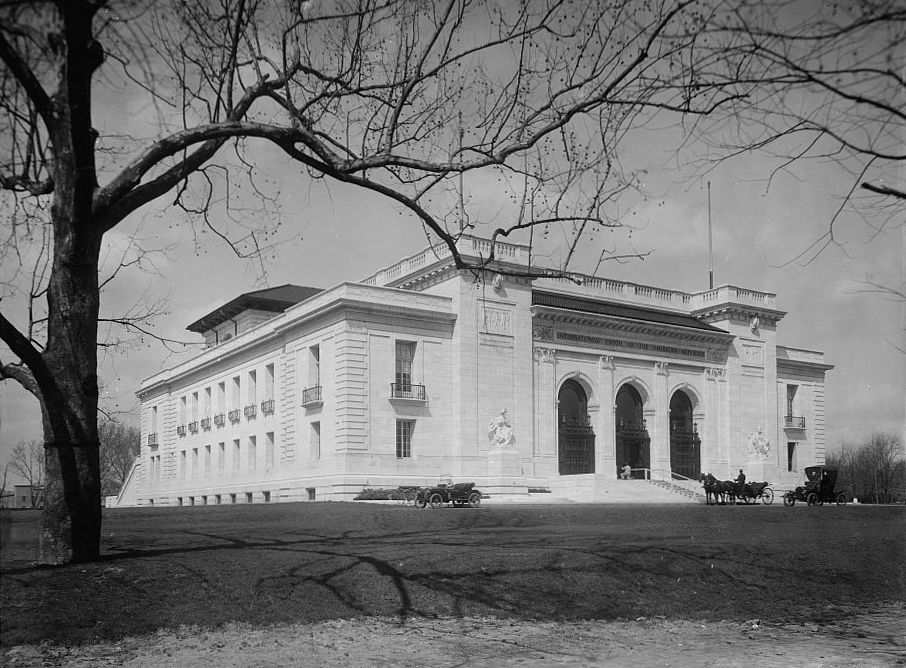 Pan american union building between 1910 and 1920